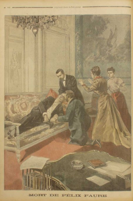 Death of the French President Félix Faure